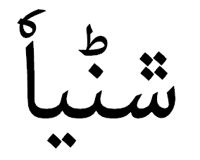 The word Shina written in the Shina language script based of of the Persian-Arab Script. Libre office used to generate text.